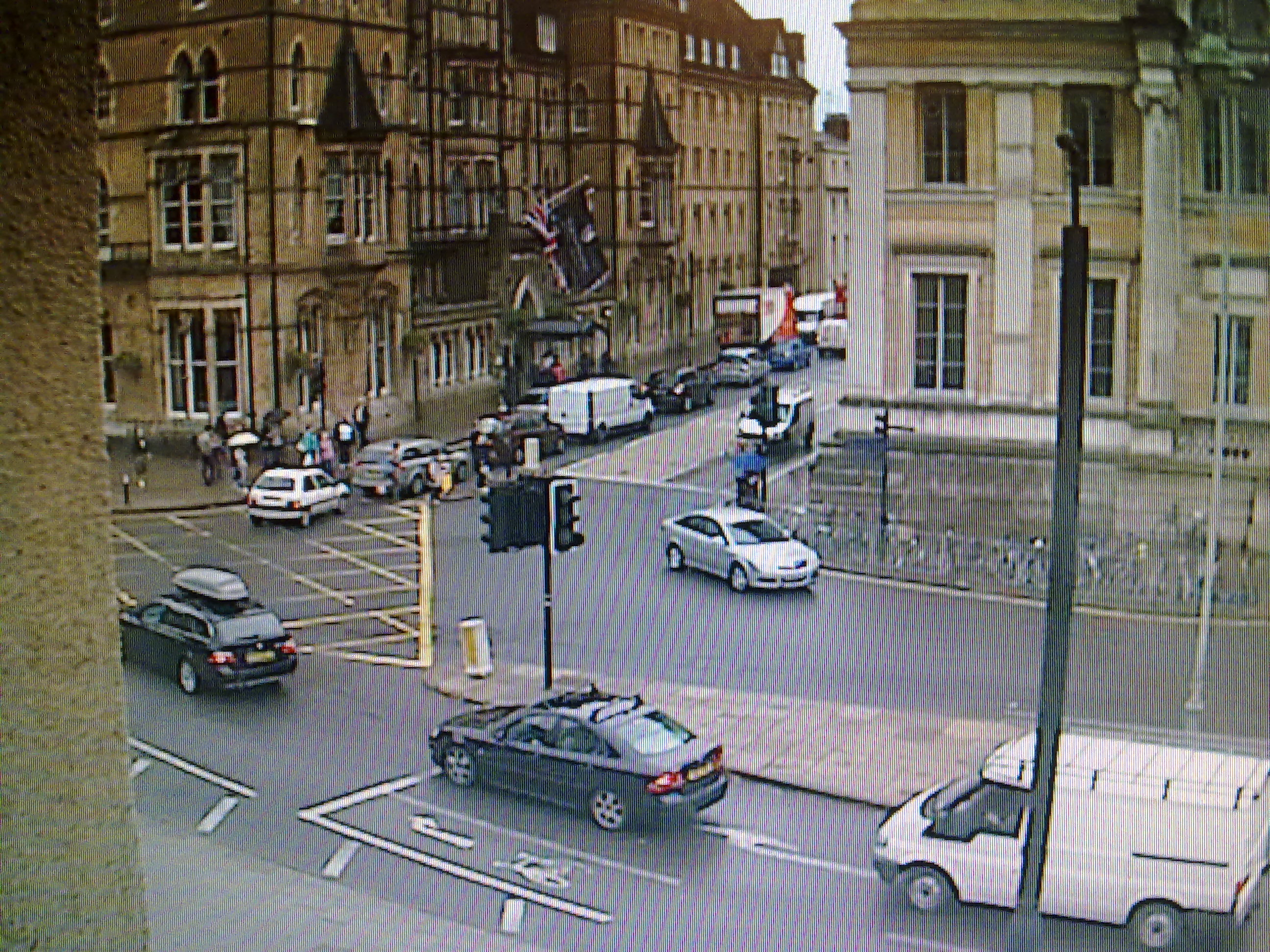 A photo of the Oxford Internet Institute's webcam feed looking into St Giles Street from their headquarters, as of August 2010.